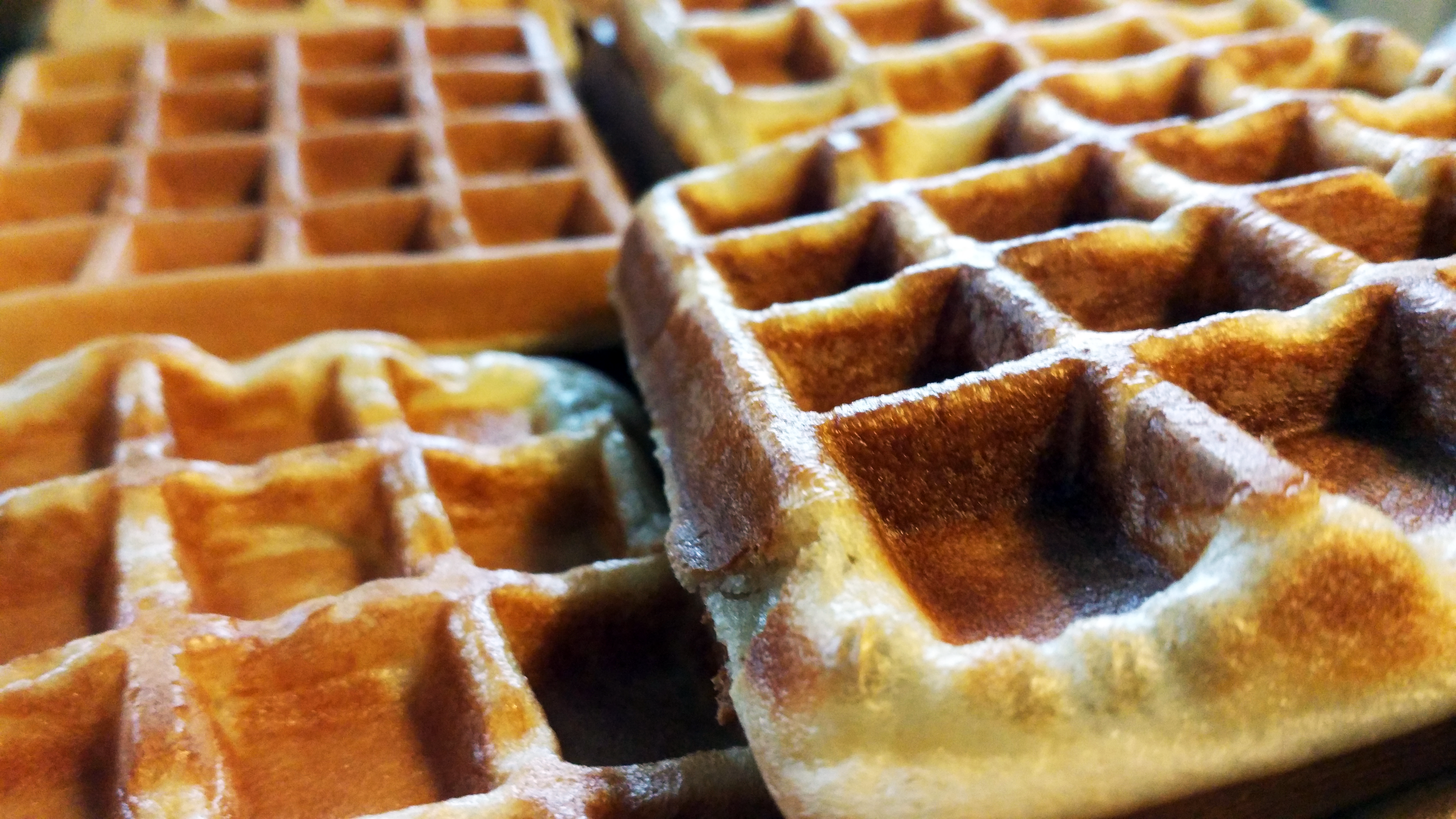 closeup view of waffles.